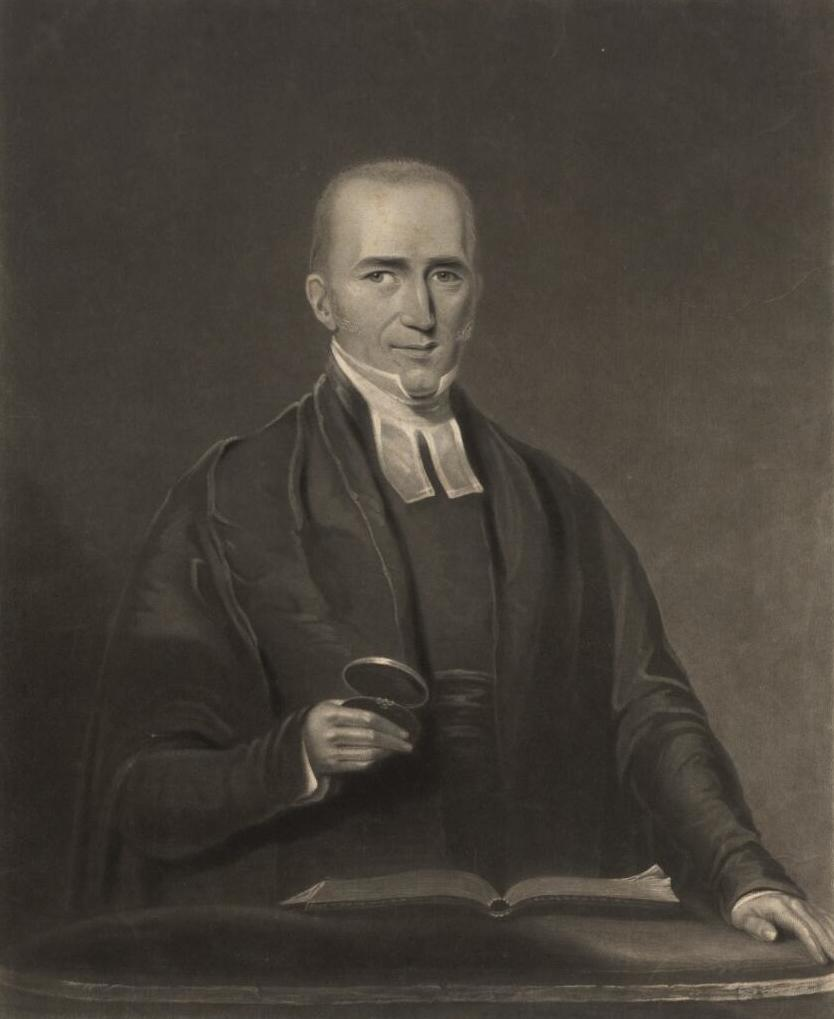 A portrait from the Welsh Portrait Collection at the National Library of Wales. Depicted person: William Howels – Church of England clergyman